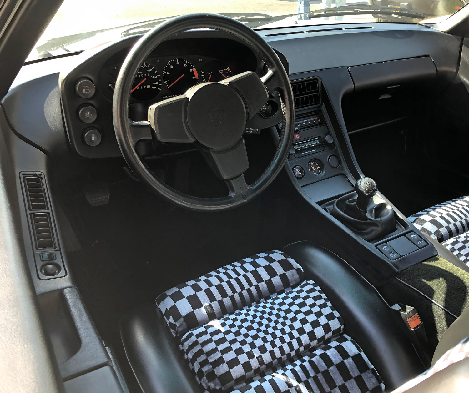 Interior showing Pasha pattern seat trim